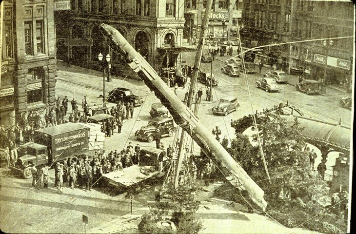 Reinstallation of Pioneer Square totem pole, Pioneer Square Park, Seattle, Washington, 1940 Item 111240, Fleets and Facilities Department Imagebank Collection (Record Series 0207-01), Seattle Municipal Archives.